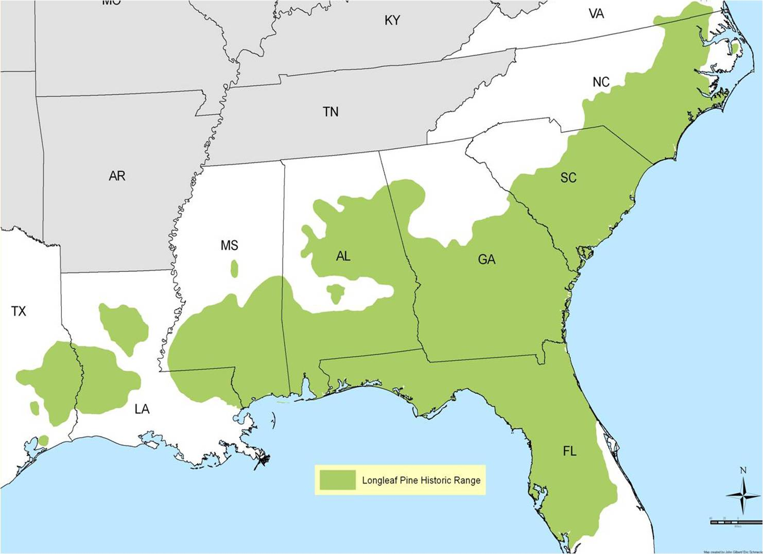 Green represents the historic range of the longleaf pine forest. It once covered more than 90 million acres from southern Virginia to Florida, and west to Texas. Because the longleaf pine evolved across this varied landscape, experts say it is best suited of all the southern pines to handle warmer temperatures, longer droughts, more intense storms and other likely climate-related stressors. Less than 4 percent remains.